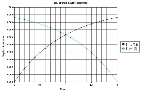 Graph comparing step response of RC circuit to mortgage balance function.